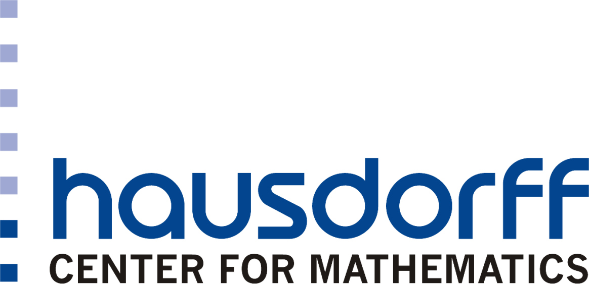 The Logo of the Hausdorff Center for Mathematics.